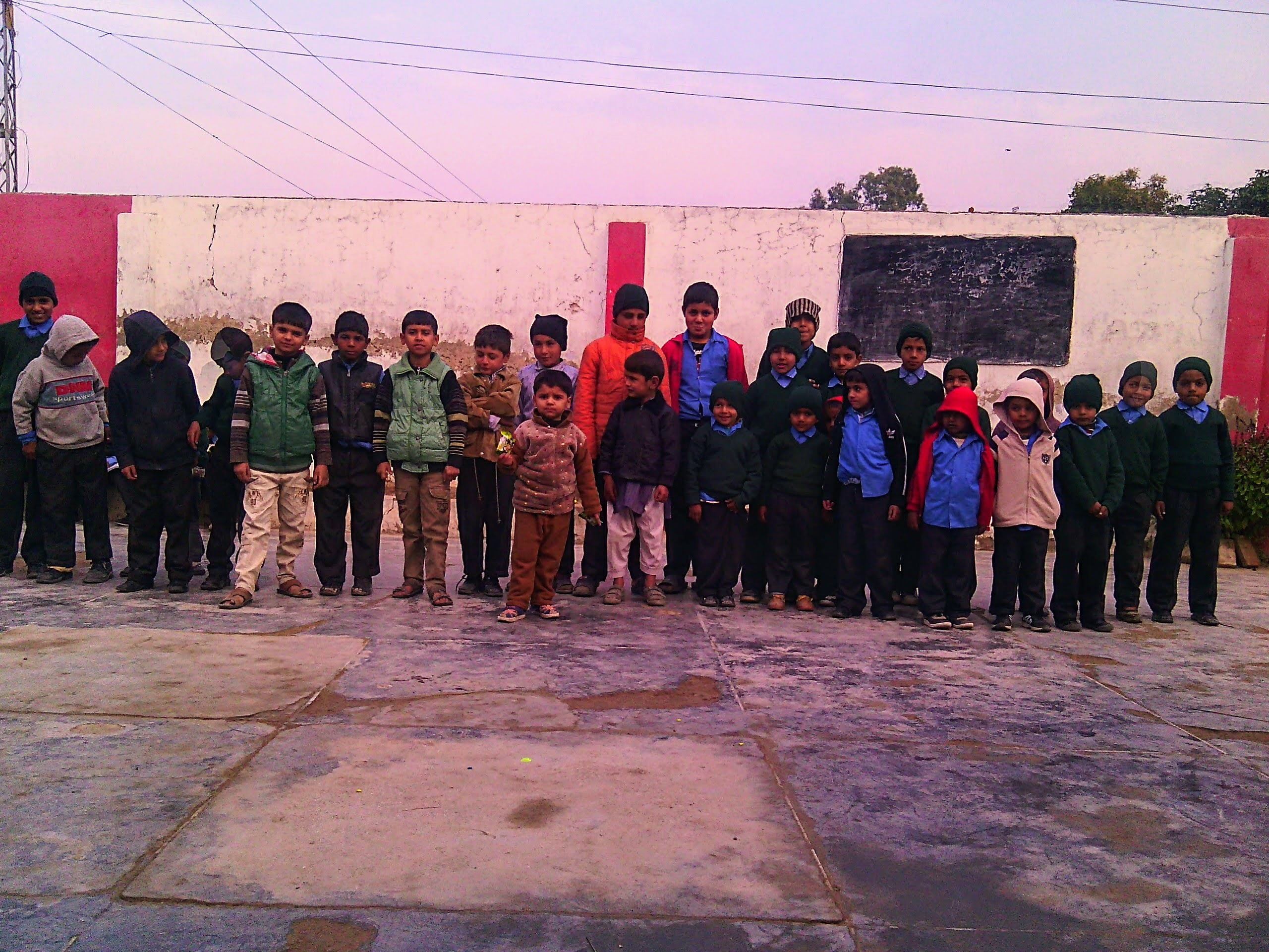 mota gharbi school kids 22 dec 2015